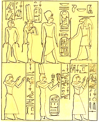 Aswan Rockstela with Three Sons; Upper Register: King, Isetnofret and Khaemwaset before Khnum. Lower register: Princes Ramesses, Merneptah and Princess Queen Bint-Anath.